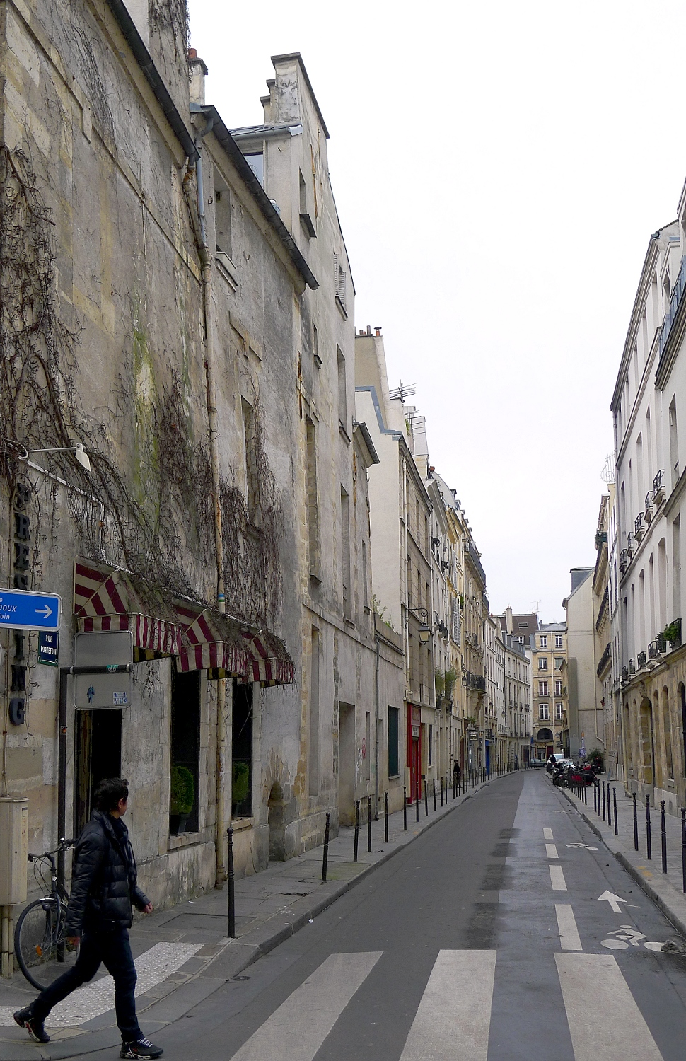 Portefoin street - Paris